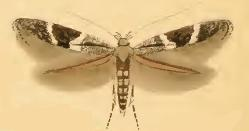 Stainton’s Natural History of the Tineina (1855–1873): Mompha subbistrigella